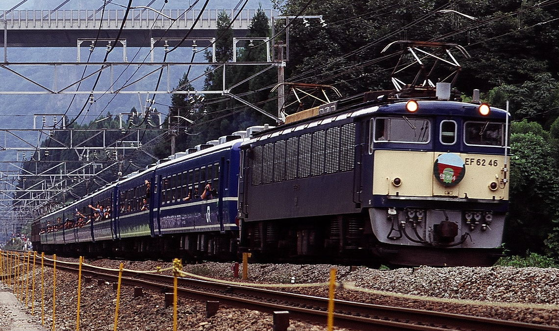 JR East Class EF62 electric locomotive EF62 46 hauling a special farewell tour